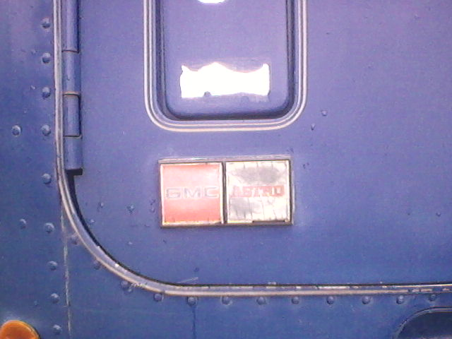 Side-door insignia of a GMC Astro 95 Tractor Trailer from the early-to-mid-1980's. Had I used a real camera instead of my cell-phone, the quality would've been much better.